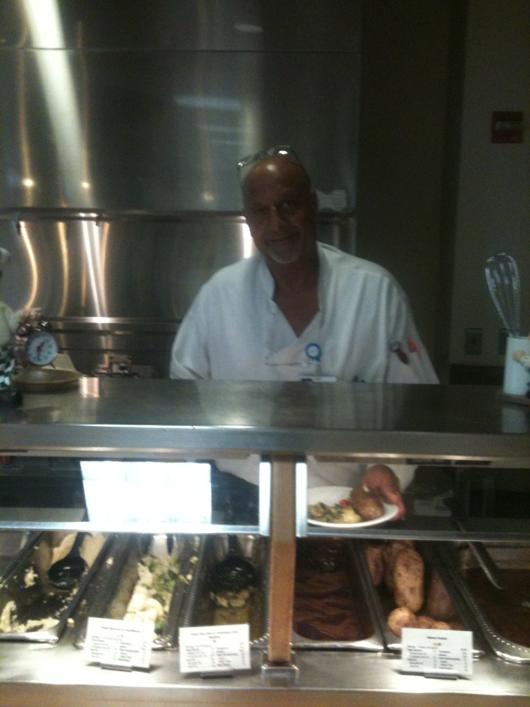 Server at tray line in the cafeteria of Fawcett Memorial Hospital. The person in the image, Gene Officer, authorized this image to be released under the Creative Commons and the GFDL with the understanding that it could be reused for any purpose, even for profit.